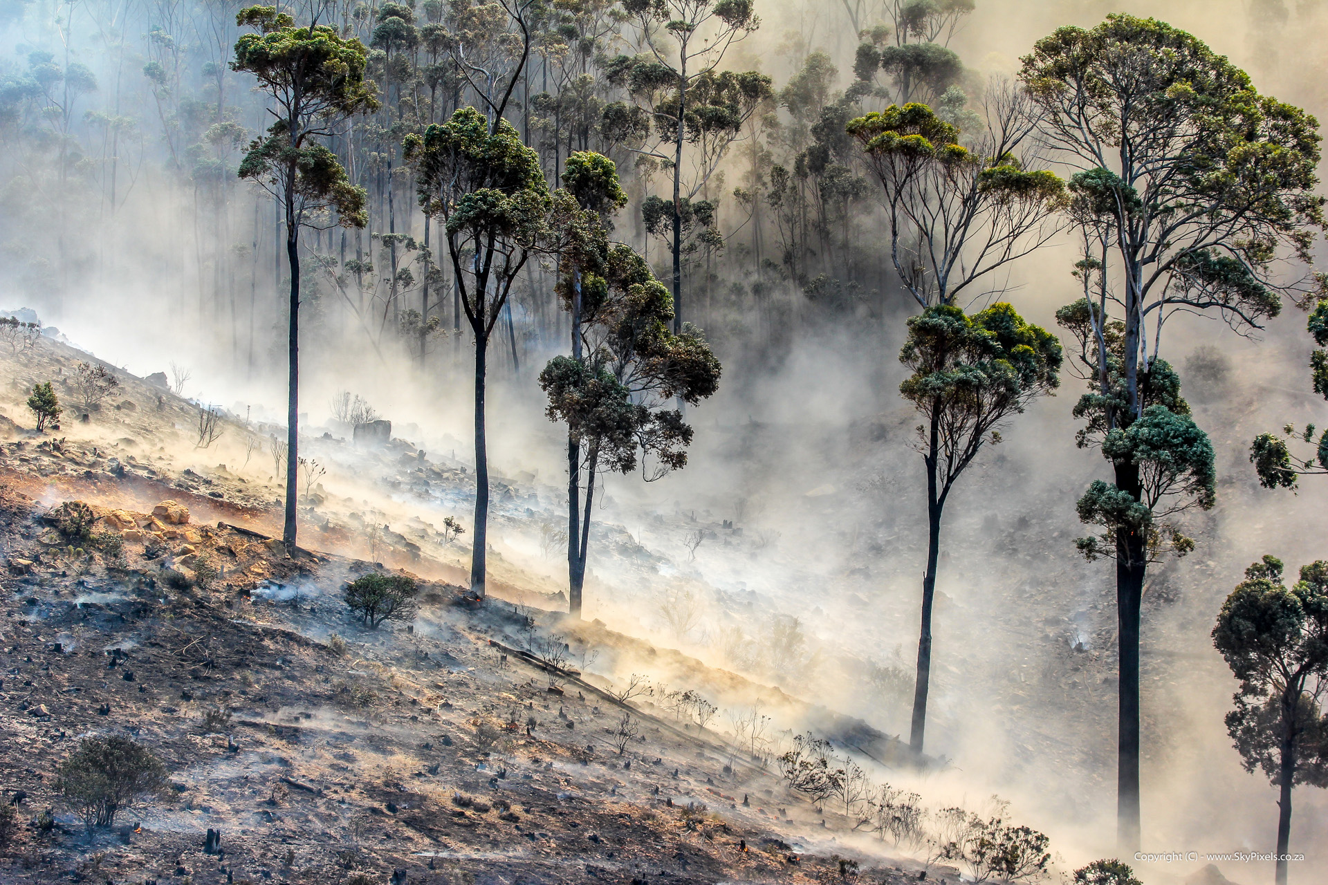 CAPE TOWN - Around 100 firefighters are still on the scene of multiple blazes in Muizenberg which have now moved to Hout Bay and Noordhoek. The multiple fires broke out on Sunday and, fanned by strong winds, spread rapidly overnight. Eyewitnesses say homes close to any of the blazes are being evacuated. Dozens of firefighters are lined alongside Ou Kaapse Weg and have been working through the night trying to battle the various fires. The fires spread from Muizenberg to Elephant's Eye above the Steenberg Golf Estate.